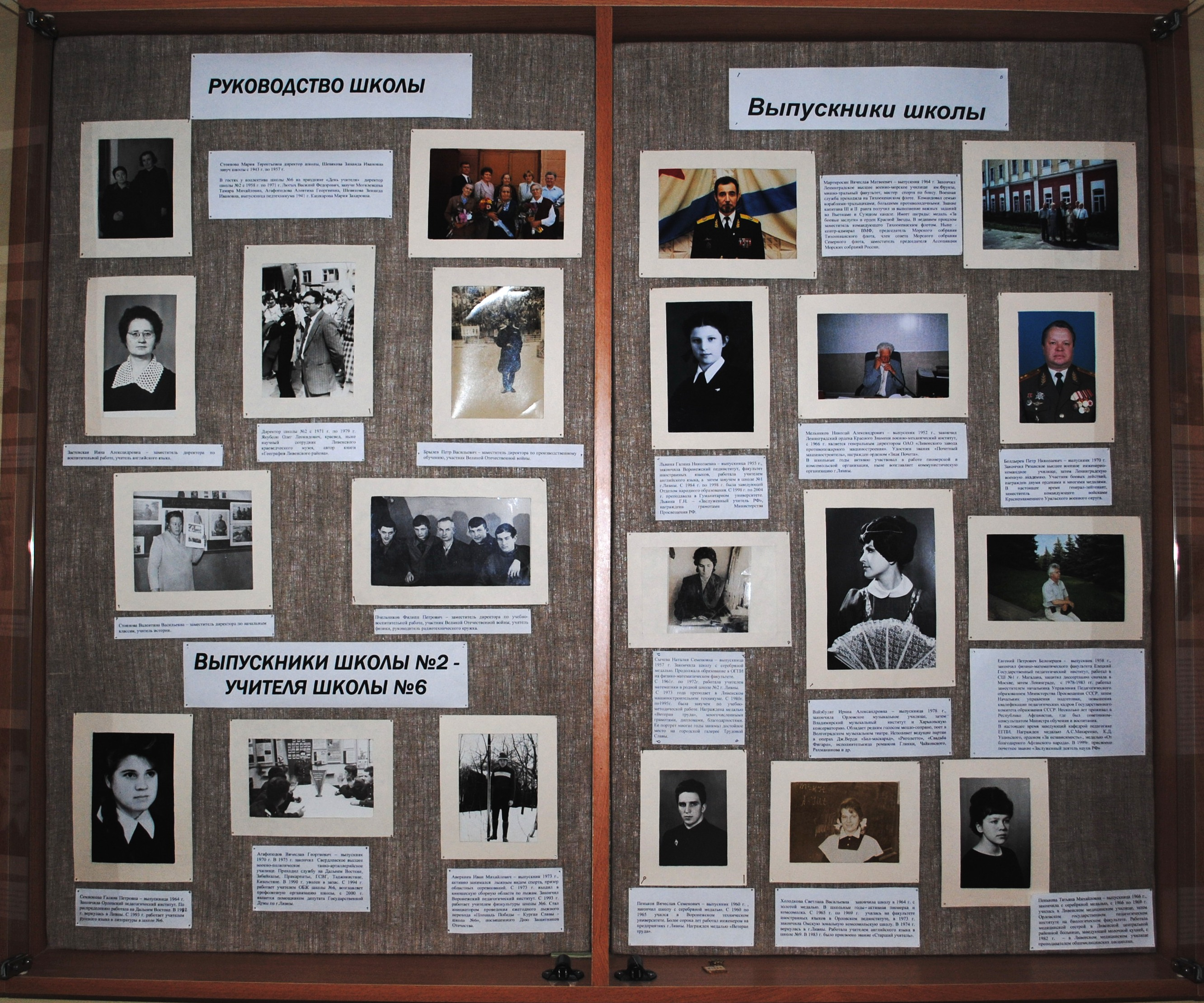 History Museum of Livny